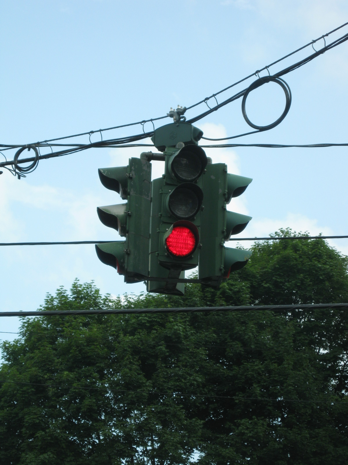 Tipperary Hill - Green over Red - Syracuse, New York